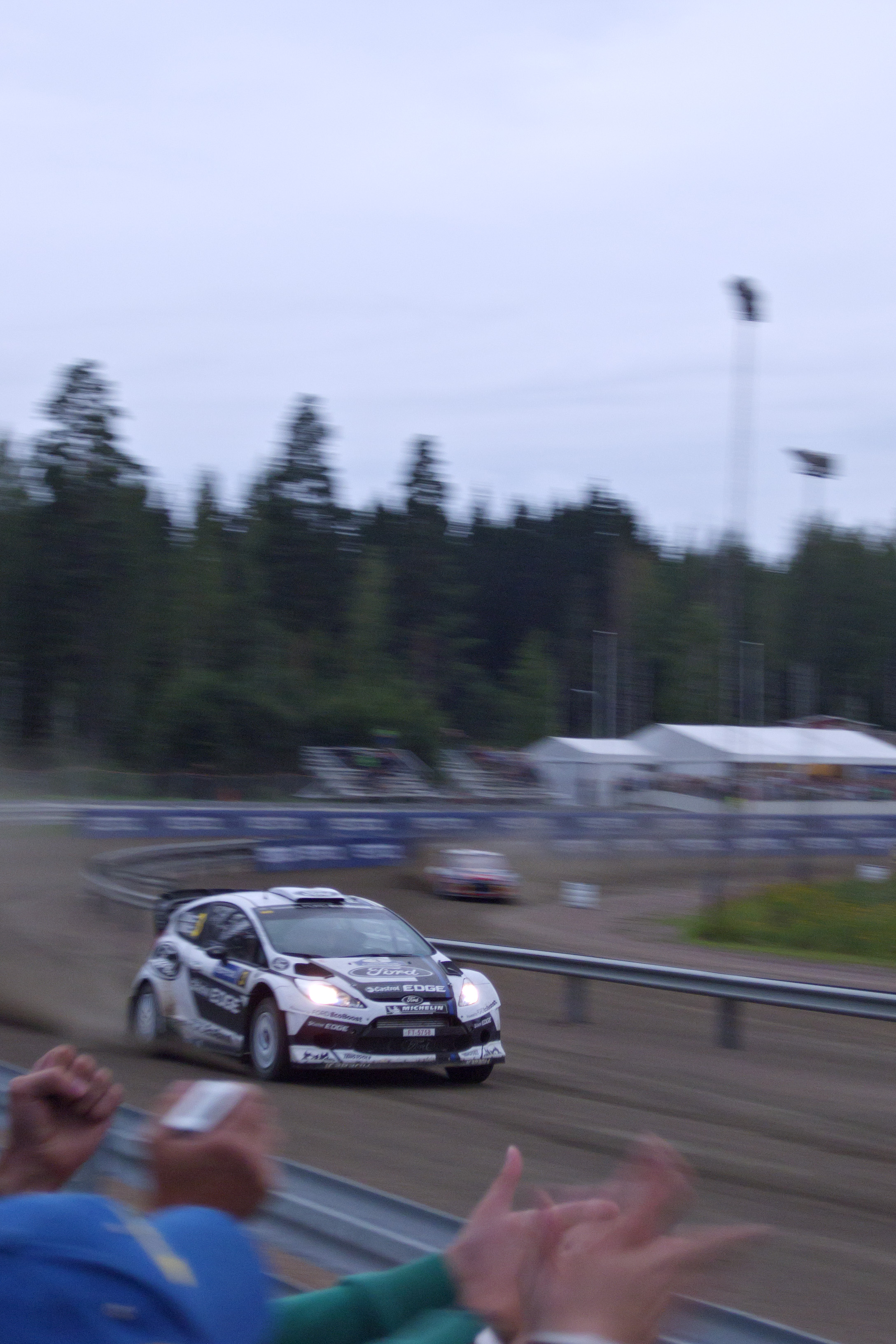 Action from SS12 SSS Killeri during the 2012 Rally Finland.